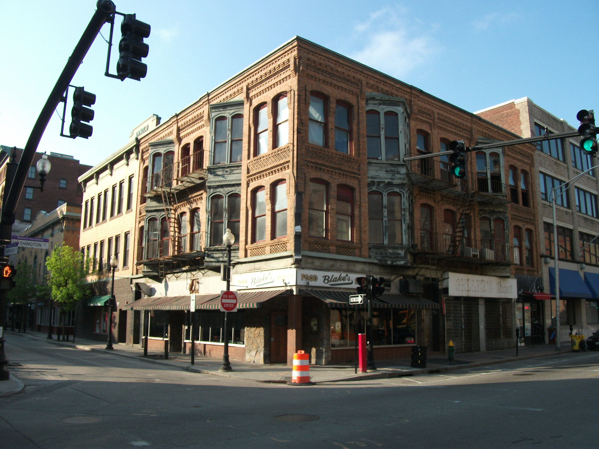 Buildings in Providence, Rhode Island